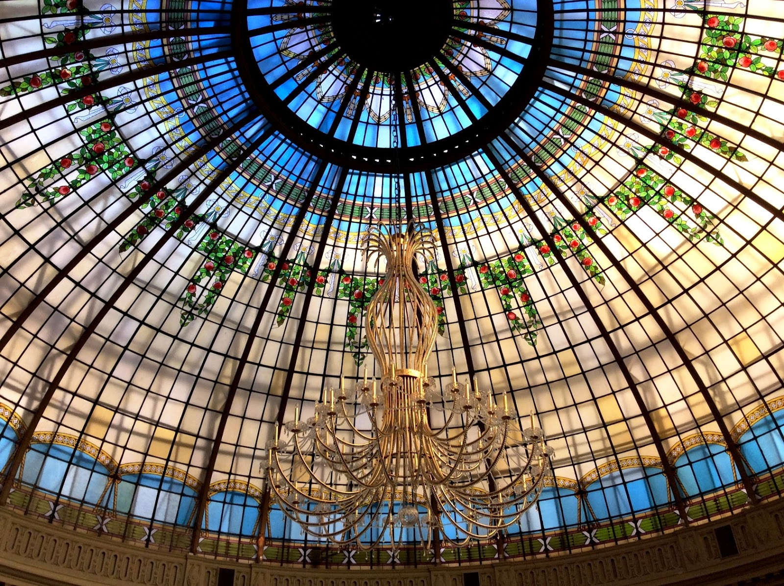 Lounge of the Palace Hotel in Madrid (Spain).